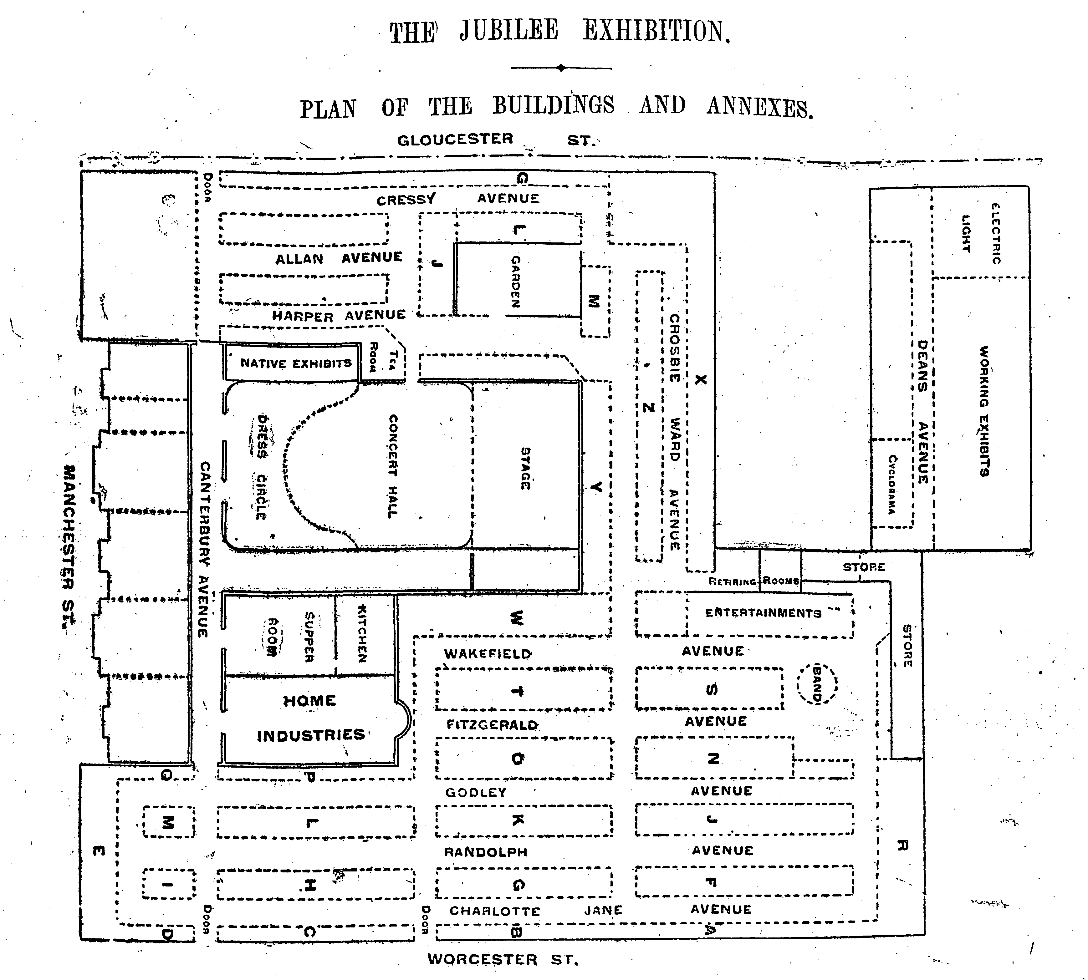 Plan of the Jubilee Exhibition in Christchurch, which opened on 1 November 1900.